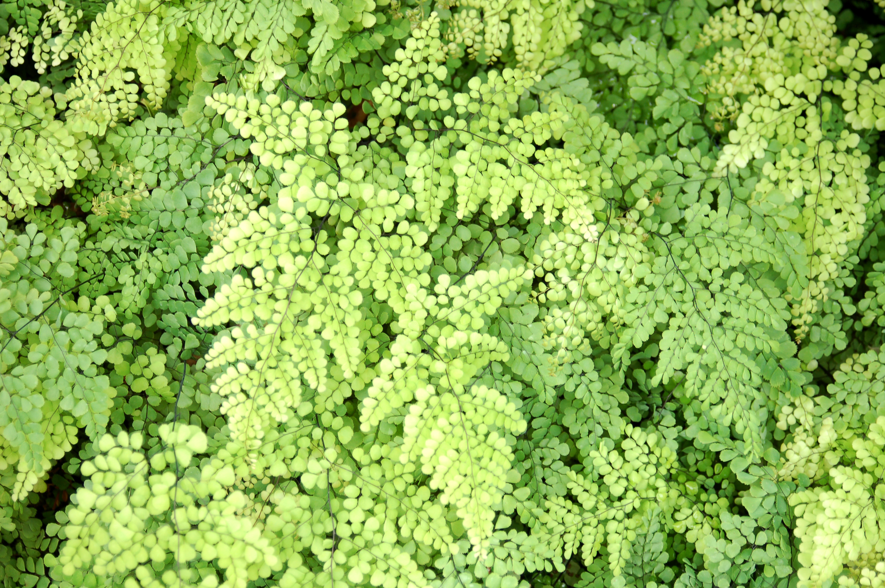 Adiantum venustum - "botanika" Bremen